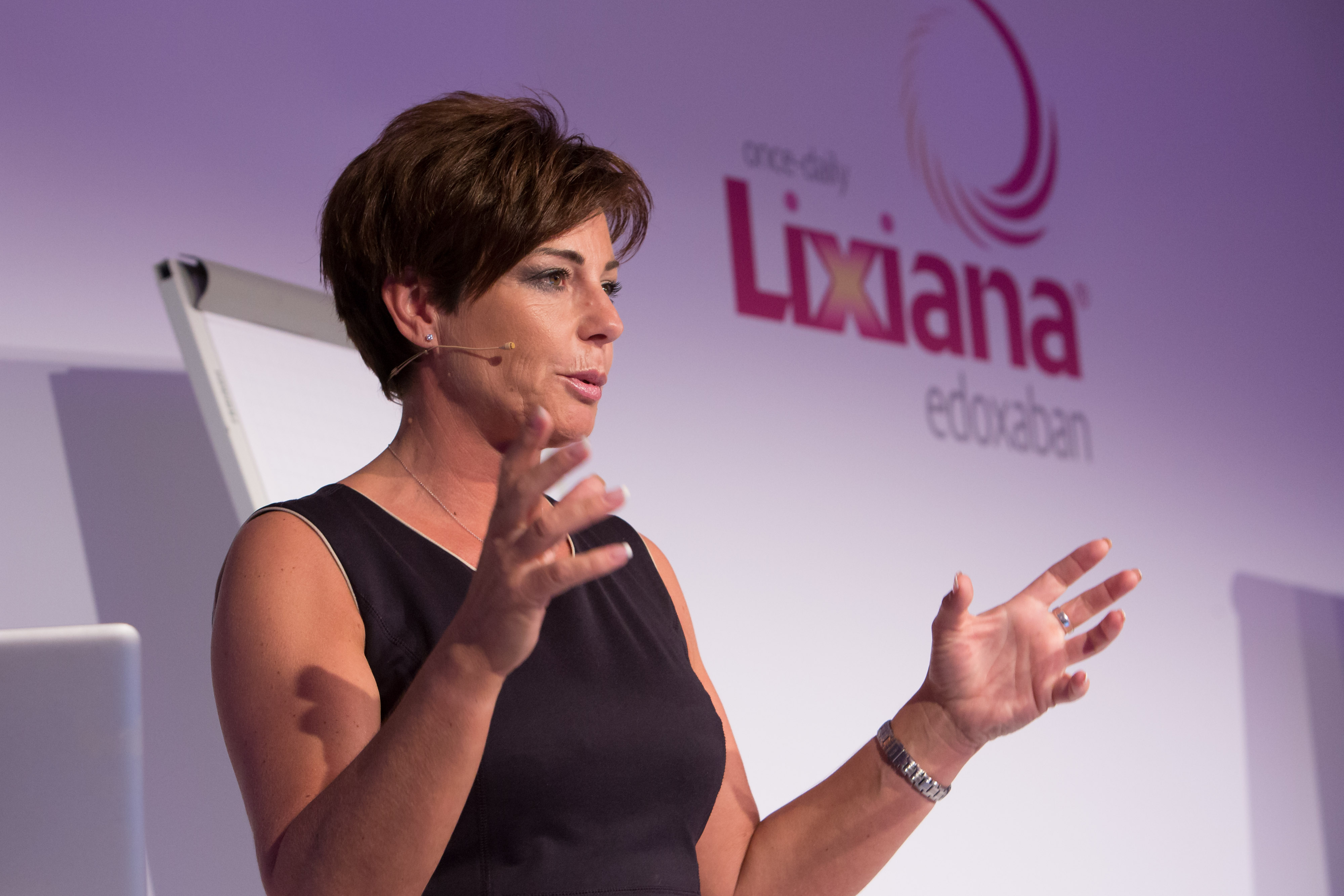 Foto: Chris Hofer